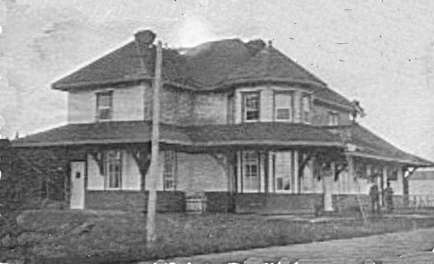 cropped and repaired from the facebook post. Oba, Ontario railway station.